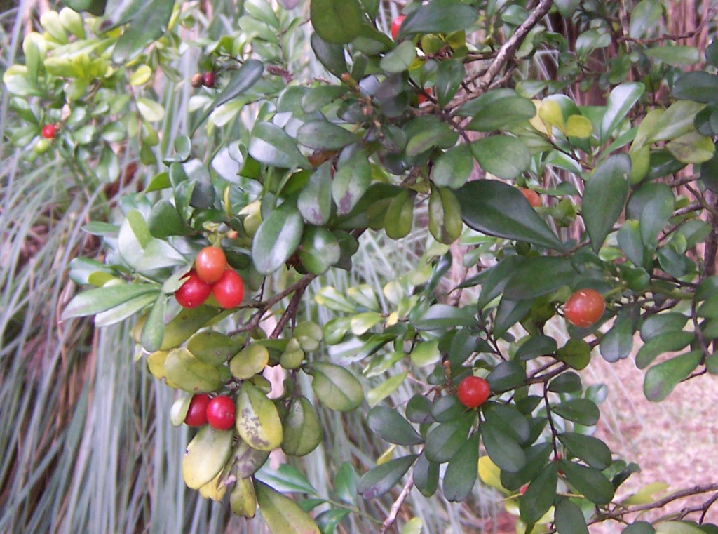 Orange Jasmine (Murraya paniculata) - fruits, Reunion island